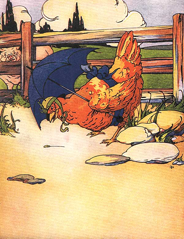 "One day the Little Red Hen found a Seed. It was a Wheat Seed, but the Little Red Hen was so accustomed to bugs and worms that she supposed this to be some new and perhaps very delicious kind of meat."